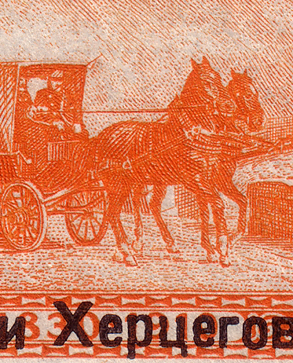 Postage stamp of Bosnia and Hercegovina, 80th anniv. of Franz-Joseph, mail wagon (fragment), 40 hellers, 1910